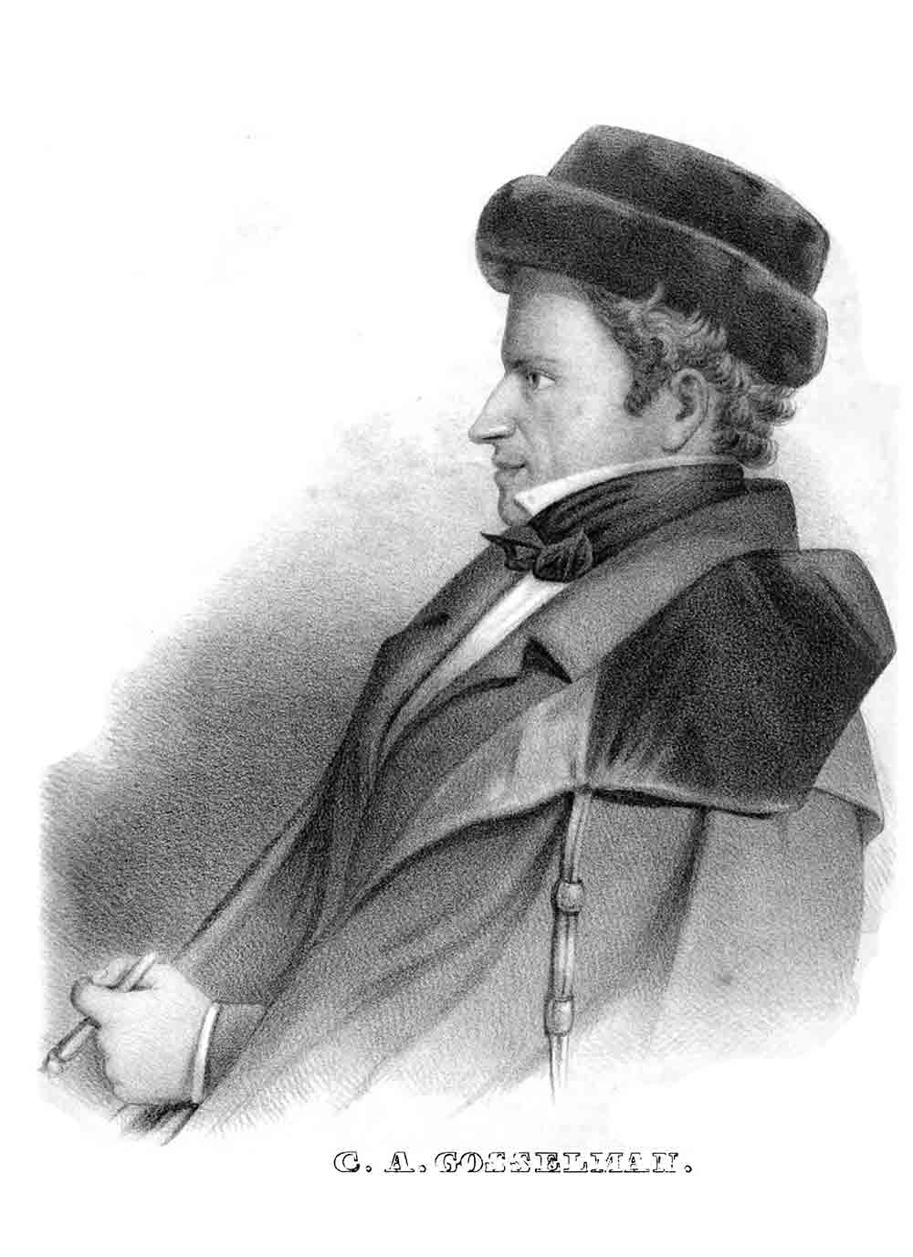 Carl August Gosselman (1799-1843)